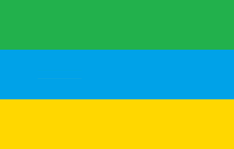 Flag of student fraternity Lettonia